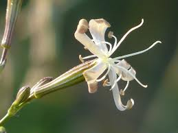 Silene sennenii 2